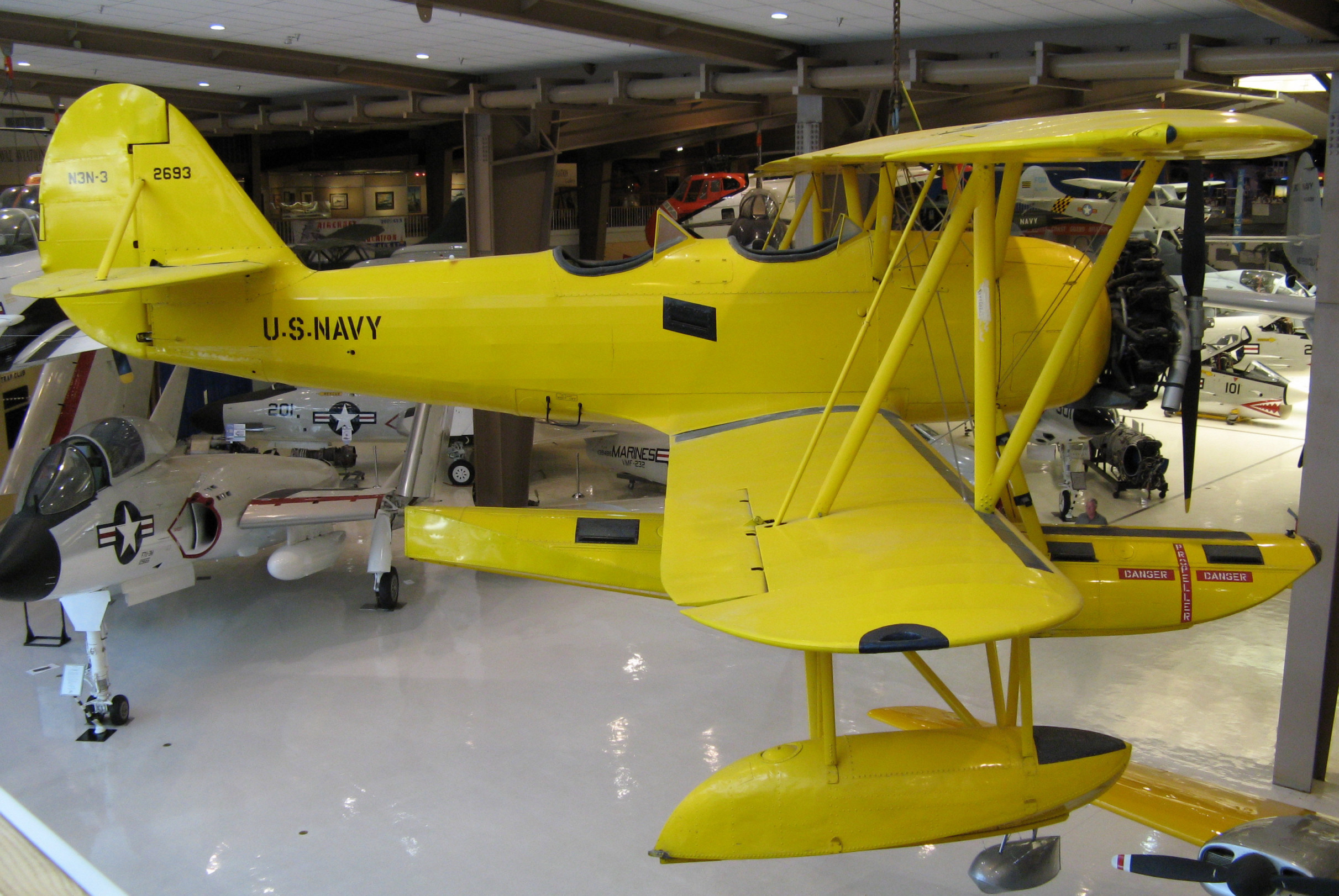 Naval Aircraft Factory N3N "Yellow Peril" trainer on display at the National Museum of Naval Aviation, Pensacola, Florida.